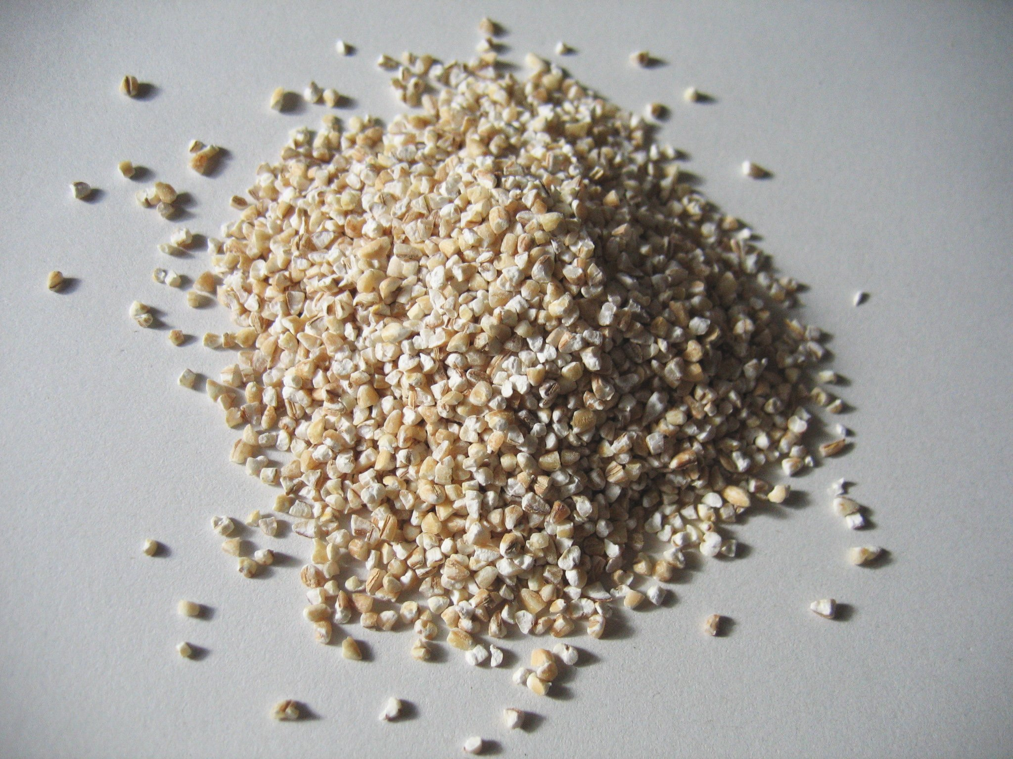 Barley groats.